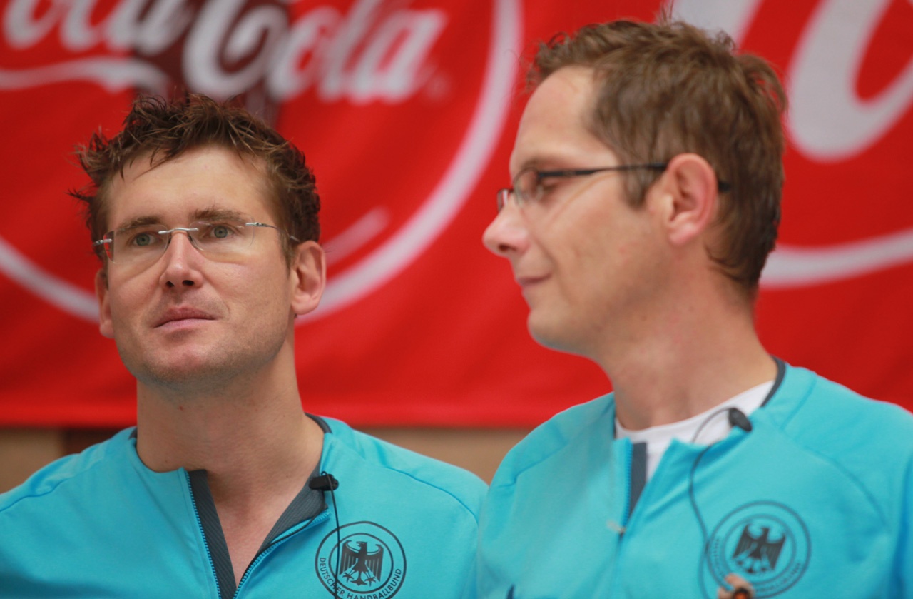 Lars Geipel und Marcus Helbig, German handball referees, during the Schlecker Cup 2010.